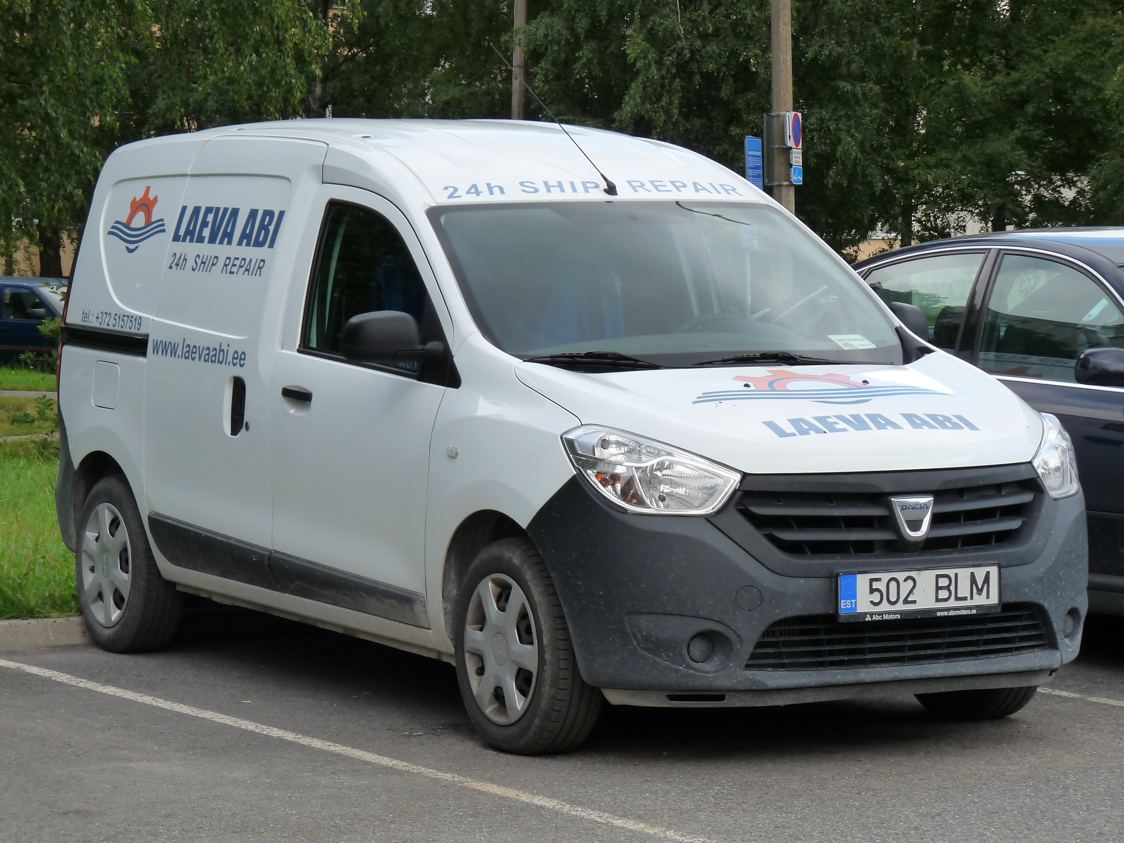 DACIA automobile in Tallinn, Estonia